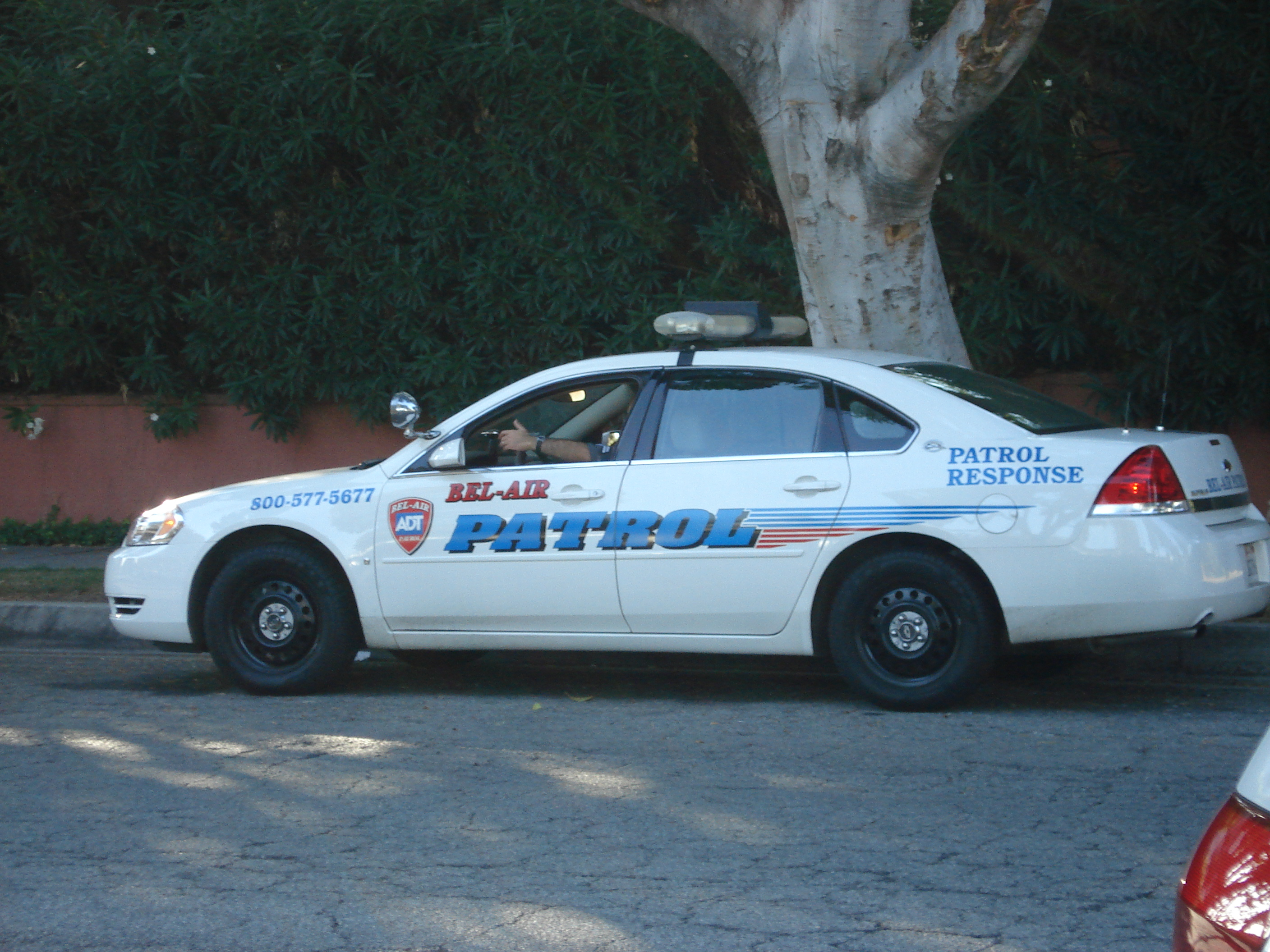 ADT Bel-Air Patrol vehicle as seen in Bel Air, parked on Park Way Drive behind Beverly Gardens Park on August 16, 2007.